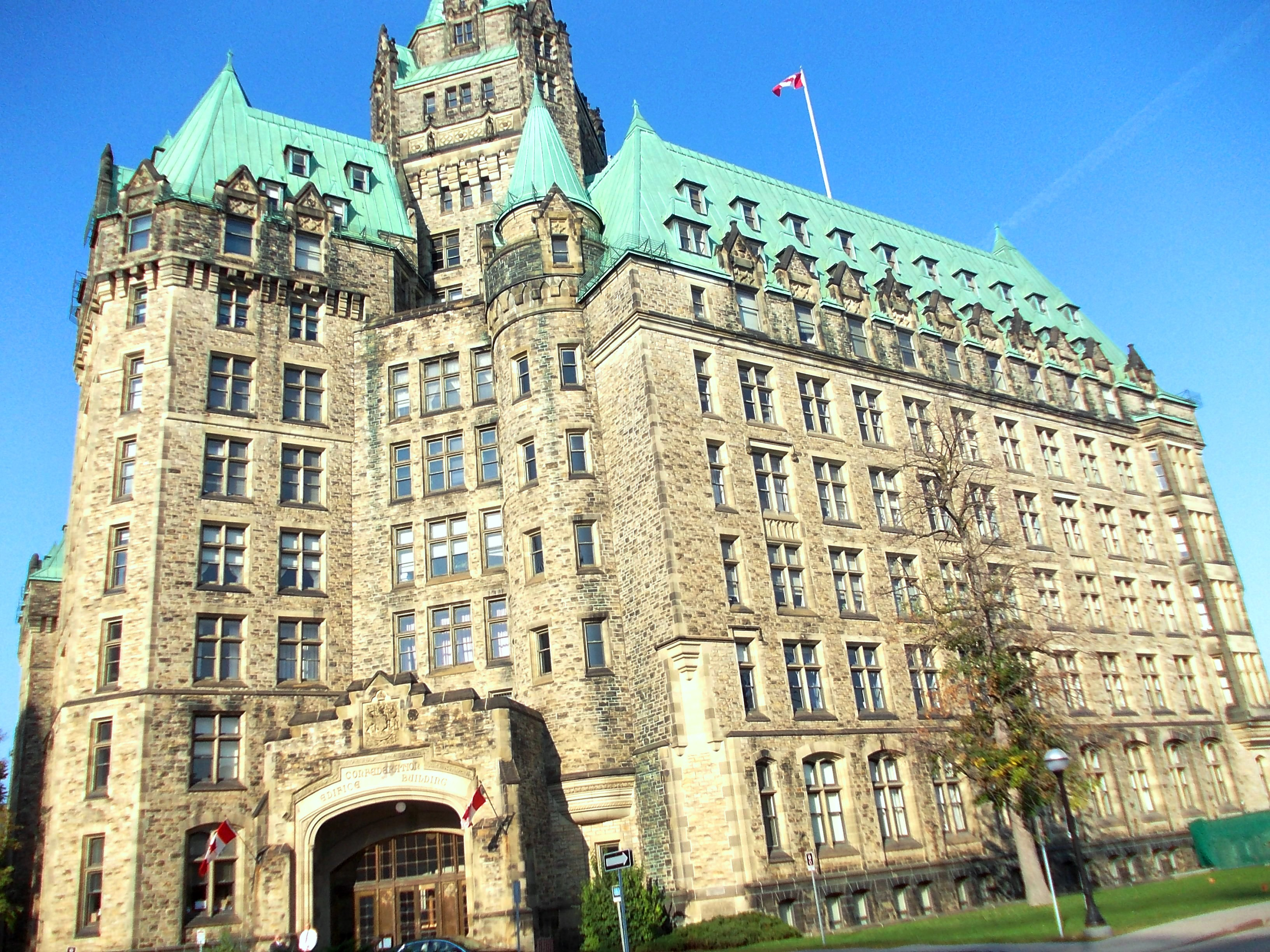 Parliament of Canada (Confederation Building)